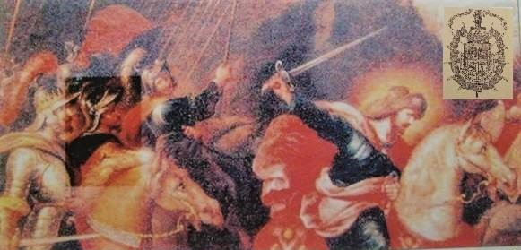 Together with Mr. Santiago, Patron of the Spain, are Don Ramiro I (King of Asturias and León), Mr. Luis de Osorio (his Ensign Major and predecessor of the Marquises of Astorga) and Mr. Sancho Fernández de Tejada (in box) .